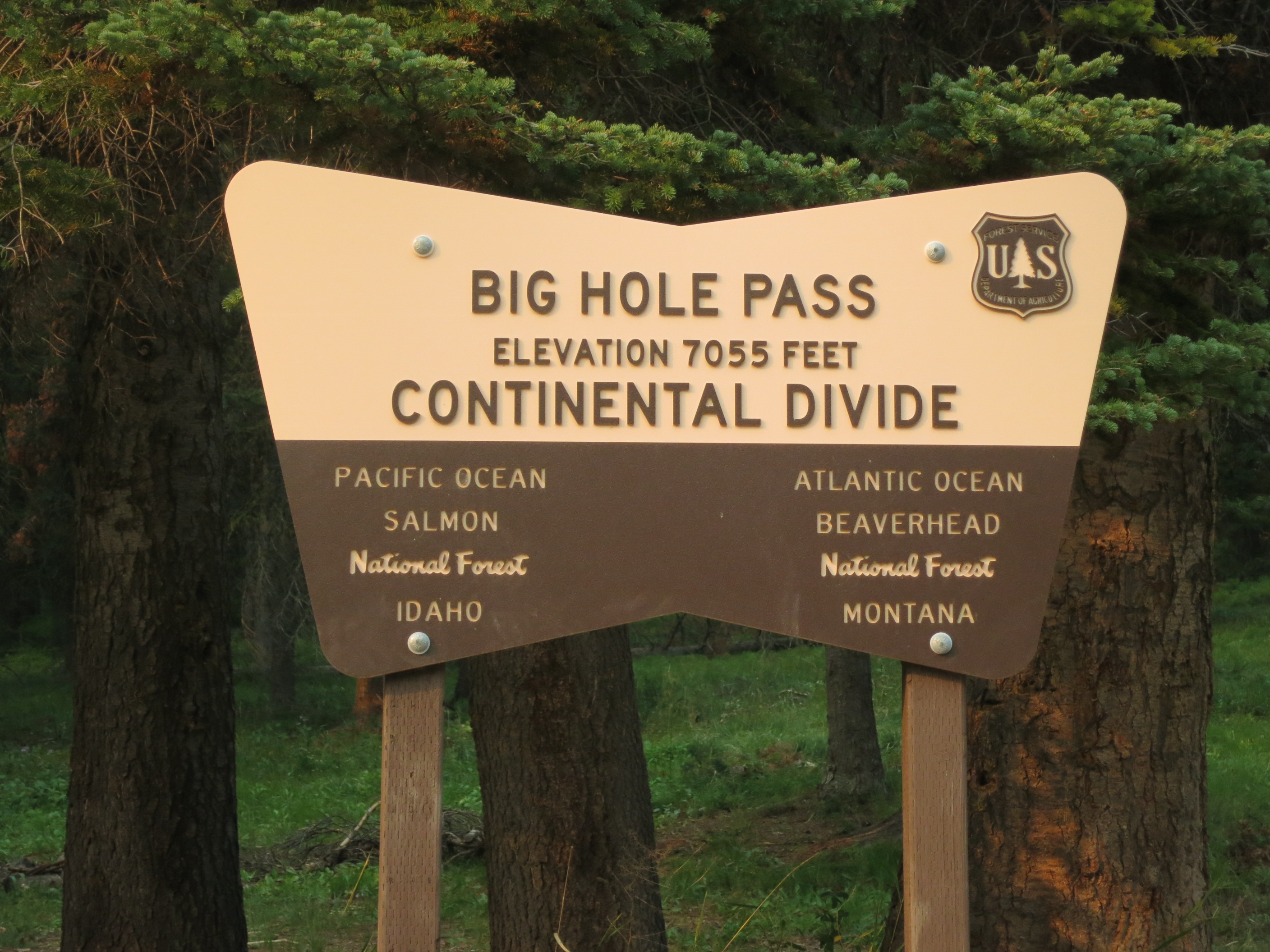 A sign marking the Continental Divide at Big Hole Pass at the Montana/Idaho border (United States). The sign reads: BIG HOLE PASS ELEVATION 7055 FEET [2150 m] CONTINENTAL DIVIDE PACIFIC OCEAN, SALMON NATIONAL FOREST, IDAHO [left] ATLANTIC OCEAN, BEAVERHEAD NATIONAL FOREST, MONTANA [right]